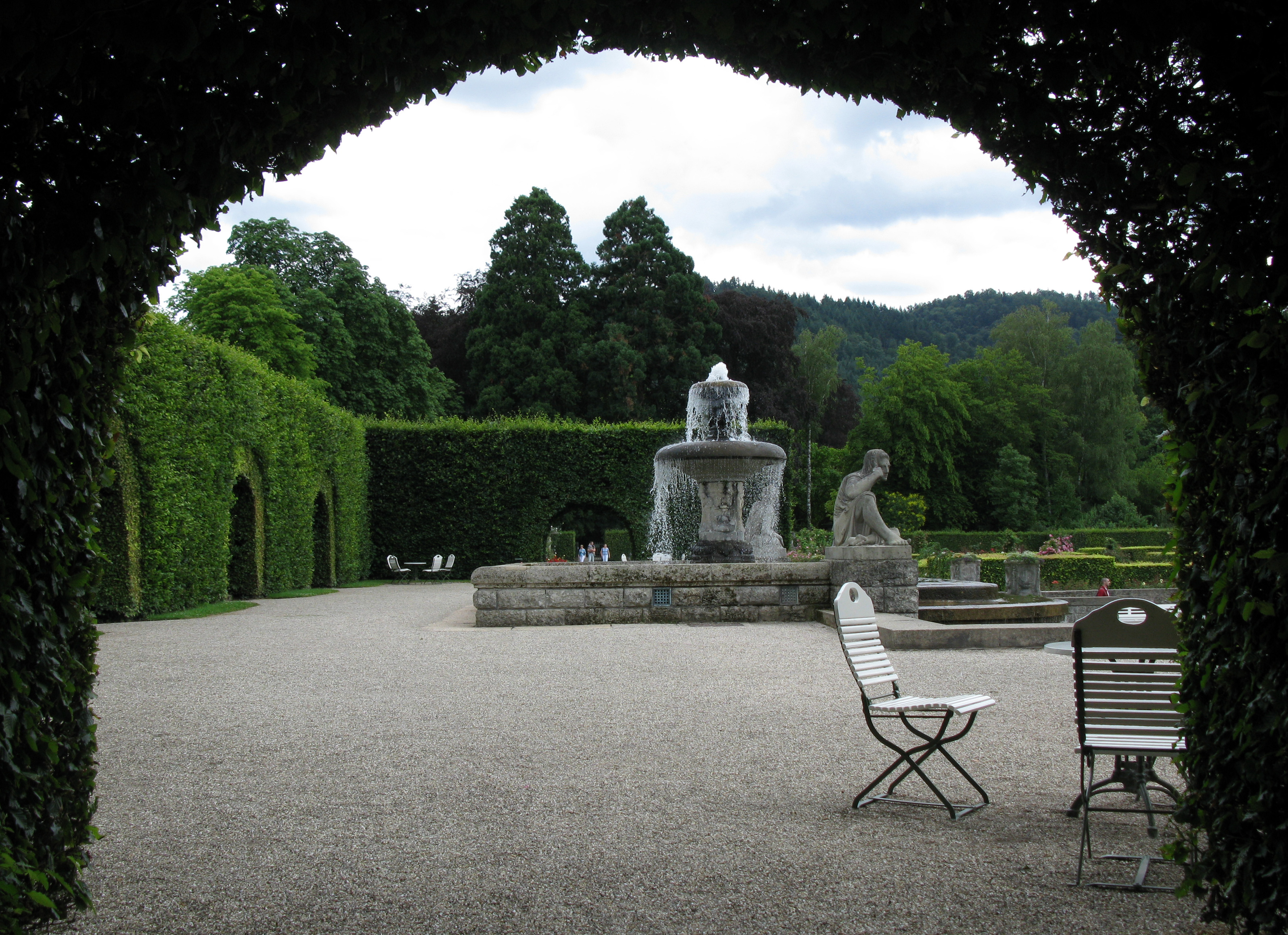 Gönneranlage with Josephinenfountain Baden-Baden